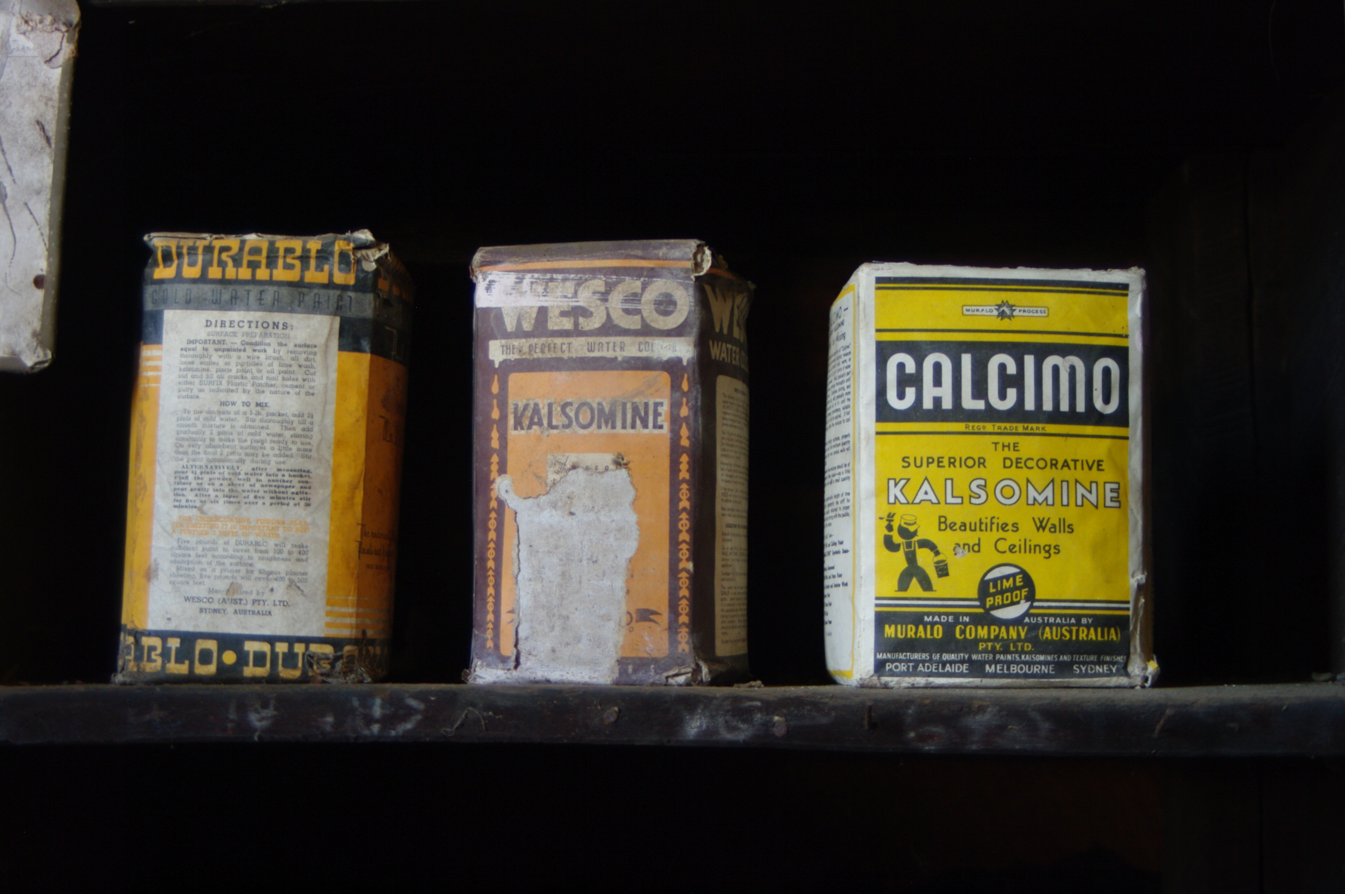 Yarloop railway workshops Yarloop, Western Australia Kalsomine, wall ceiling plaster powder